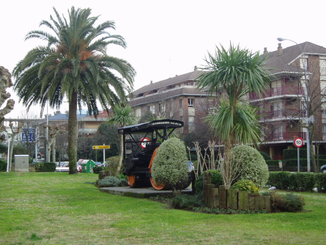 Gure Ametsa gardens in Zarautz (Gipuzkoa).